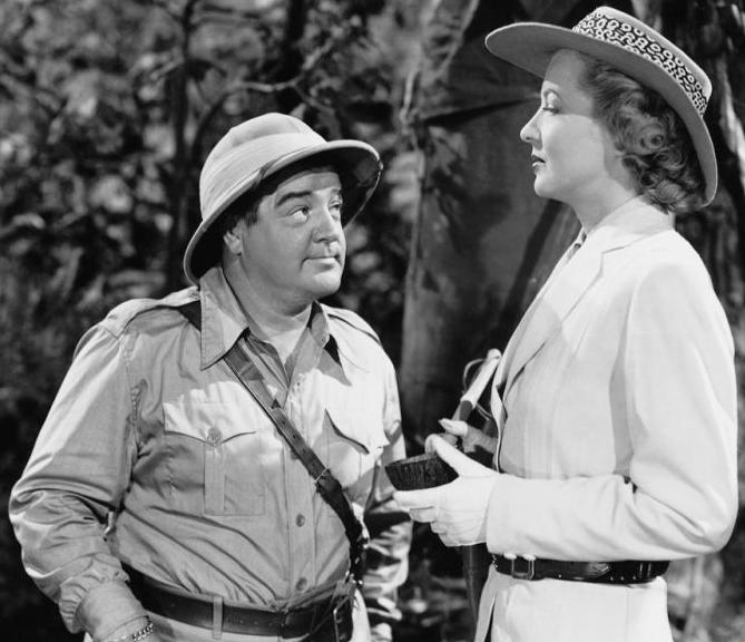 Lou Costello & Hillary Brooke in Africa Screams - cropped screenshot